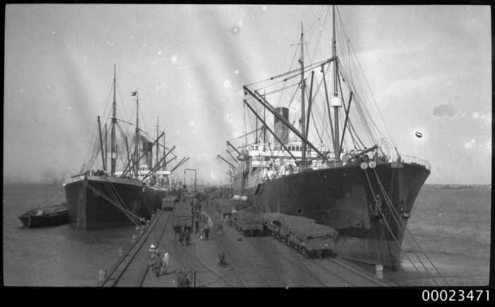 SS PERSIC was built in 1899 and scrapped in 1927. SS CERAMIC, of the White Star Line, was built in 1913 and was active on the Australia route. In 1934 CERAMIC was sold to the Shaw, Savill & Albion Line. In 1942 the ship was enroute to Australia when it was torpedoed in the Atlantic Ocean by a German U-boat. Of the 656 onboard only one survived. This photo is part of the Australian National Maritime Museum’s Samuel J. Hood Studio Collection. Sam Hood (1870-1956) was a Sydney photographer with a passion for ships. His 72-year career spanned the romantic age of sail and two world wars. The photos in the collection were taken mainly in Sydney and Newcastle during the first half of the 20th century. The ANMM undertakes research and accepts public comments that enhance the information we hold about images in our collection. This record has been updated accordingly. Photographer: Samuel J. Hood Studio Collection Object no. 00023471